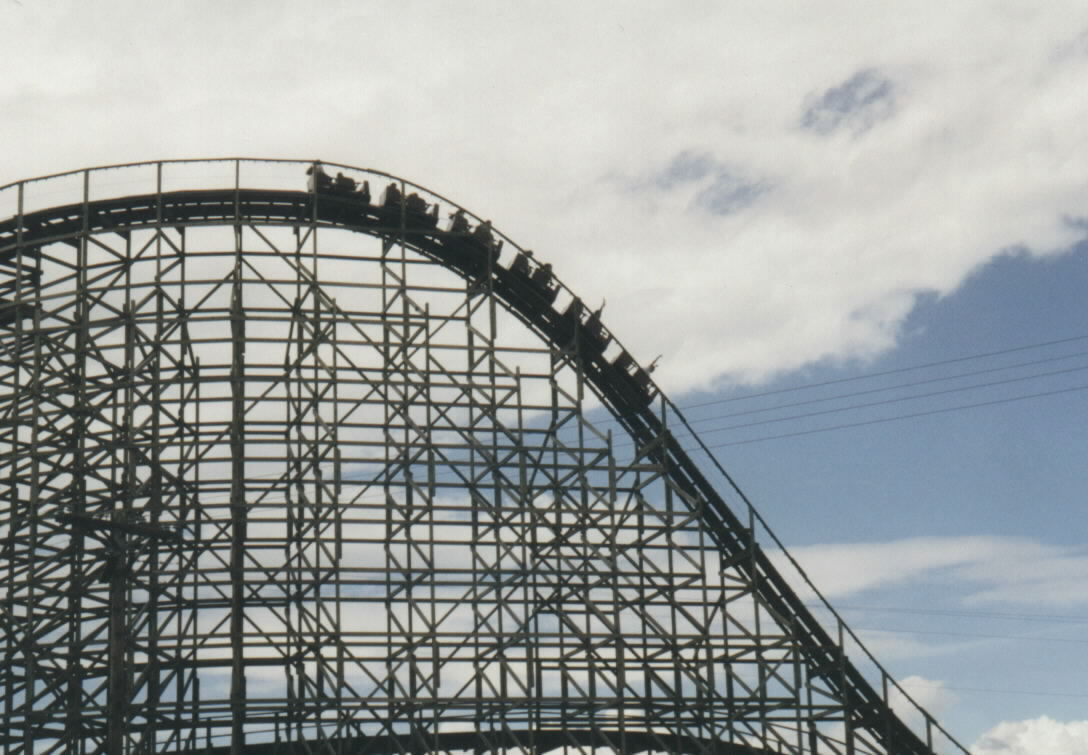 Silverwood Theme Park